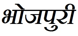 Bhojpuri word in Devanagari Script.